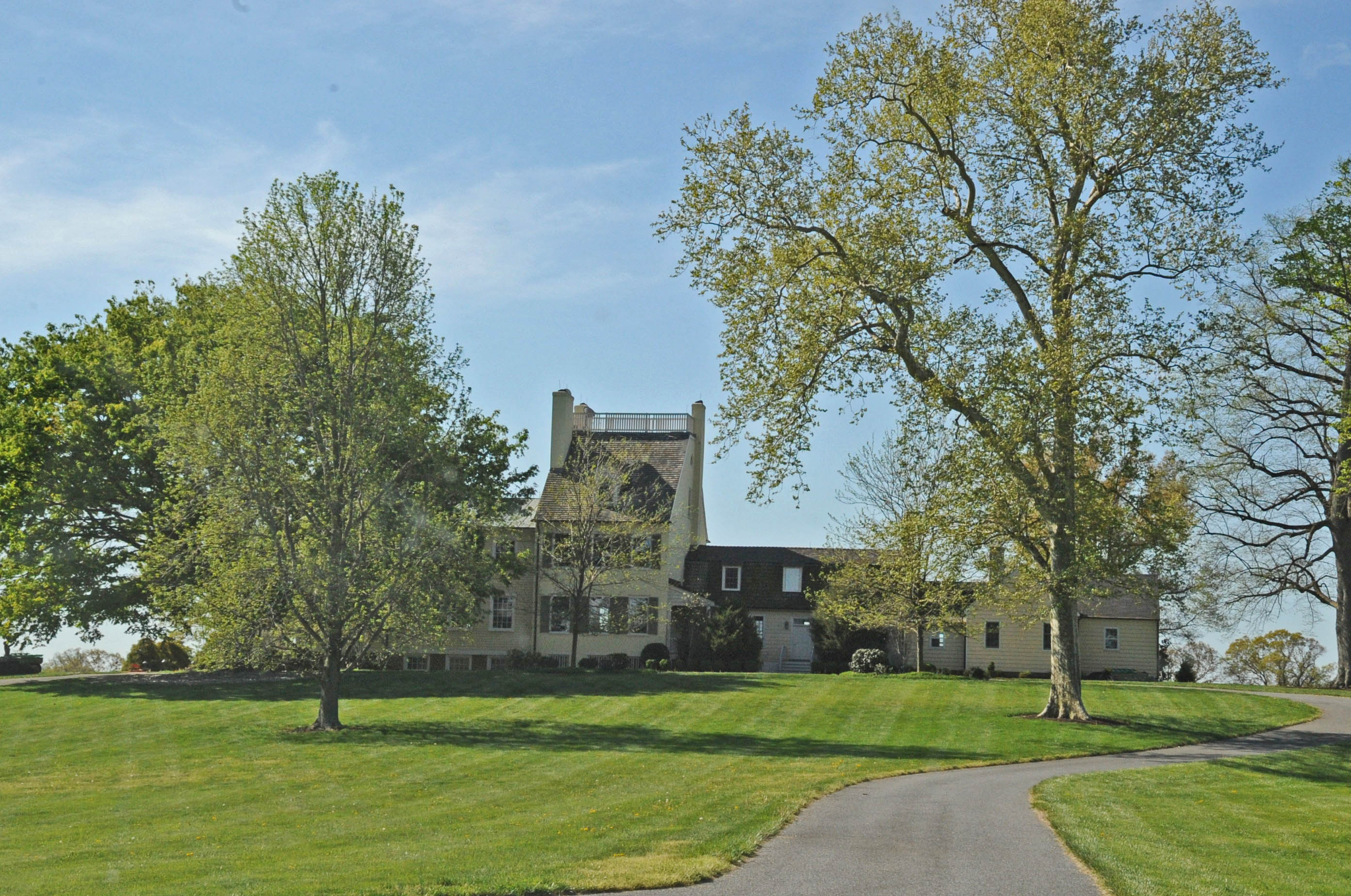 BUILT IN 4 STAGES FROM LATE 18TH CENTURY TO THE 1960’S; HOME OF GENERAL THOMAS MARSH FORMAN, AN AIDE TO LORD STIRLING ON THE REVOLUTIONARY WAR. HE LATER SERVED WITH MAJOR GEORGE ARMISTEAD AT FORT MCHENRY IN 1814